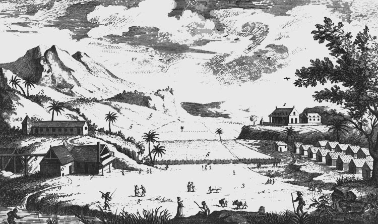 A sugar plantation in Saint Croix, US Virgin Islands